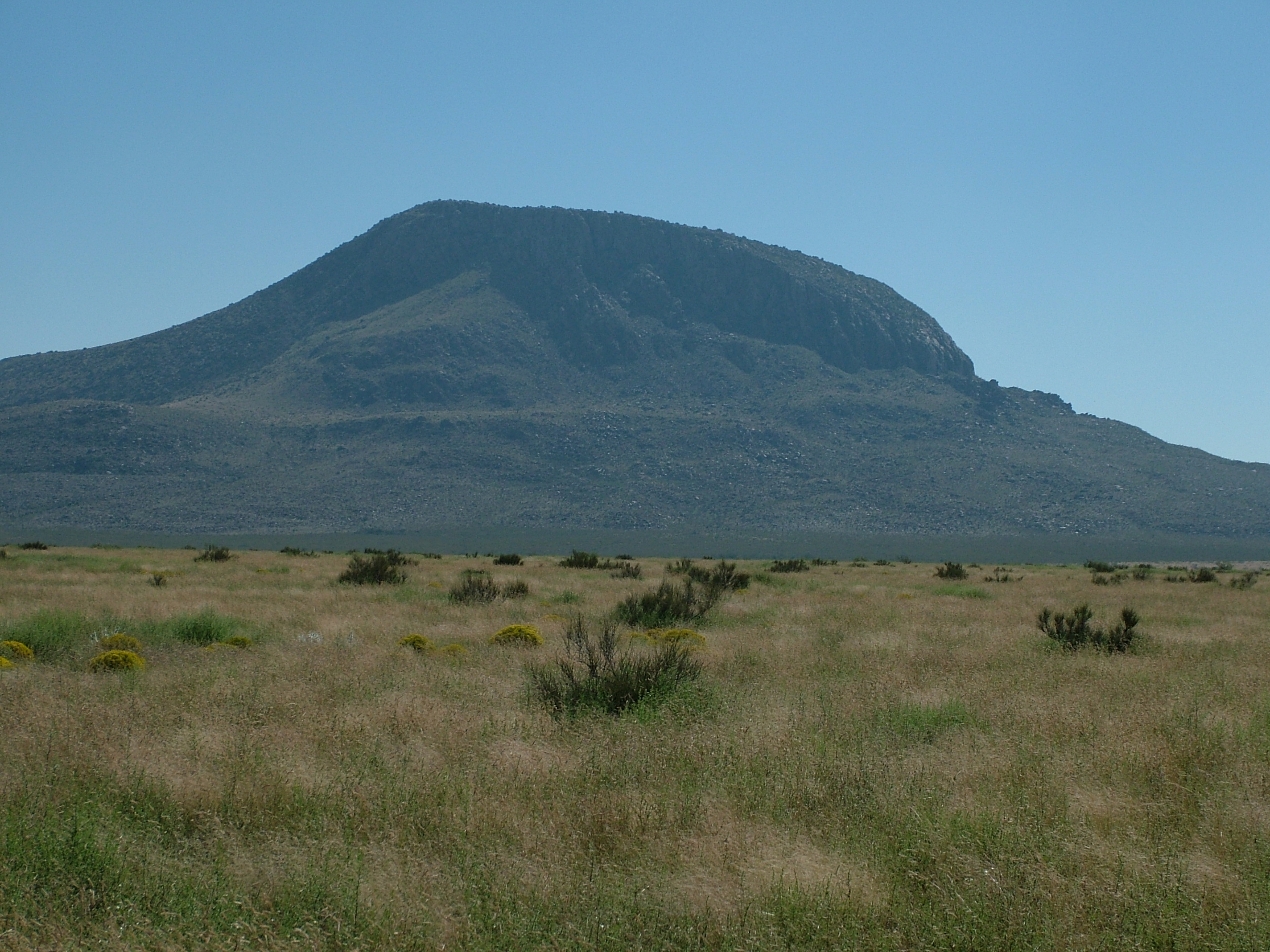 Otero Mesa, greened by autumn rains. Alamo Mountain in the distance.